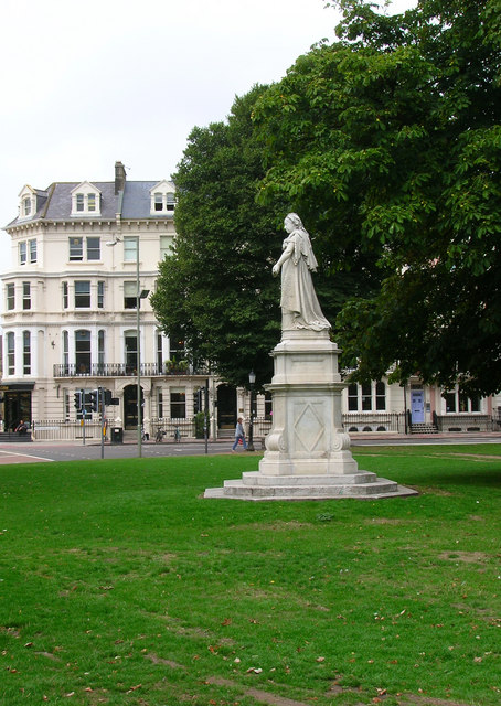 Victoria Statue, Victoria Gardens. Head north up Pavilion Parade then into Victoria Gardens an open space between the main roads. Victoria Gardens were initially known as the North Steine and was enclosed in 1818 accessible only to private subscribers. The public were not allowed in until 1896 and the name changed in 1897 to celebrate Victoria's diamond jubilee. The statue was presented to the town by a former mayor in 1897. On the western side of the gardens is Marlborough Place, built as North Row in 1772 on the main road out of town. Click on the link to take you to the next page.